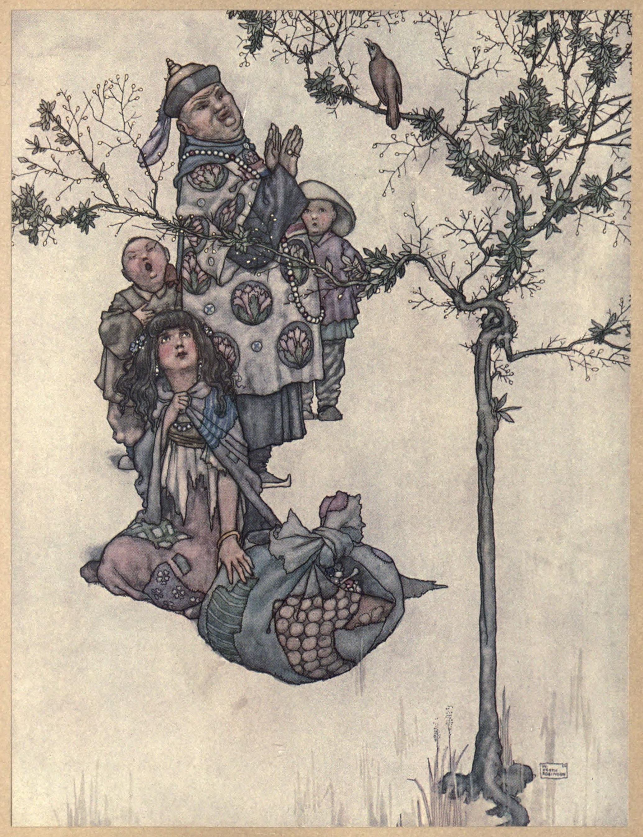 Colour plate in Hans Andersen's fairy tales (1913) London: Constable.